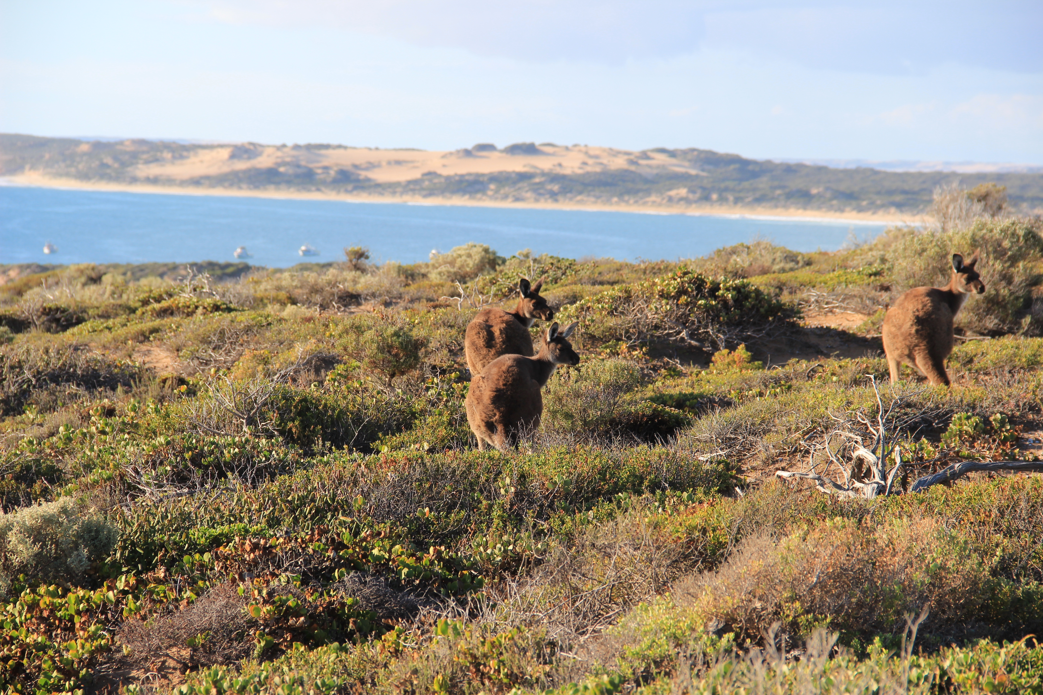 This photo was shot in the Innes park, Yorke Peninsula, South Australia. The landscape is at the West Cape Light House. Not many people were willing to reach the farthest point of the West Cape, where we could see a heavenly opening scenery.